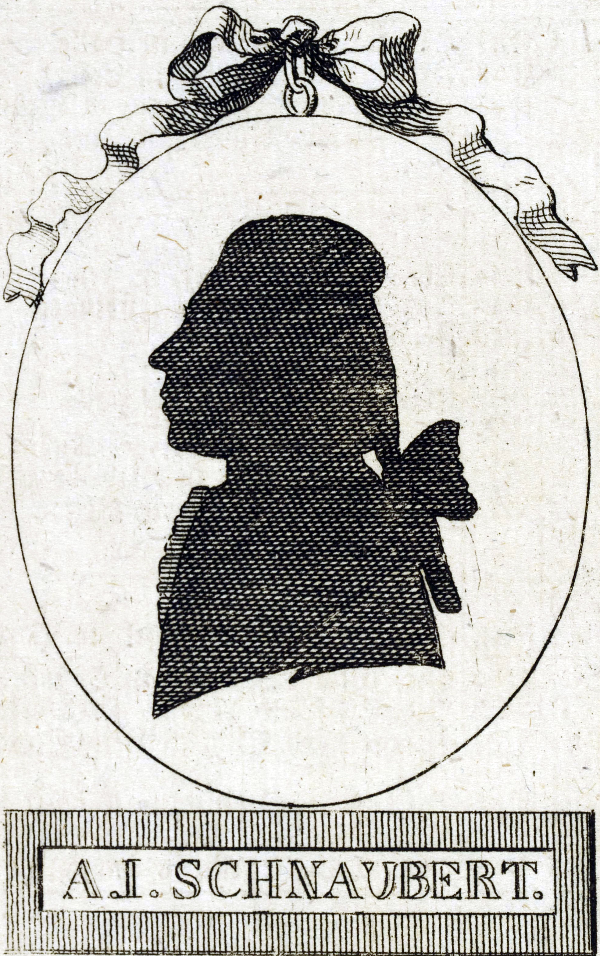 Andreas Joseph Schnaubert (1750-1825) german legal Scholar